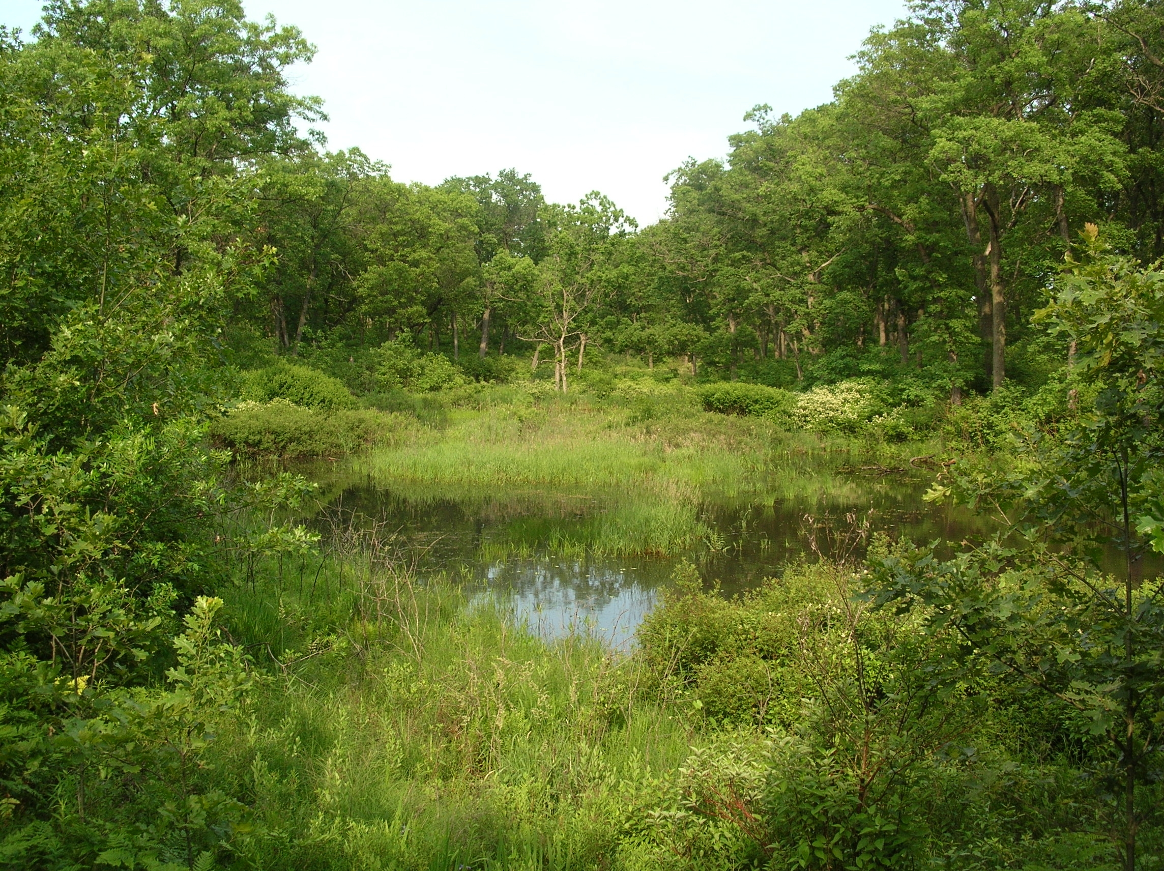 An interdunal wetland at Miller Woods in the Indiana Dunes National Lakeshore, in the Miller Beach area of Gary, Indiana.